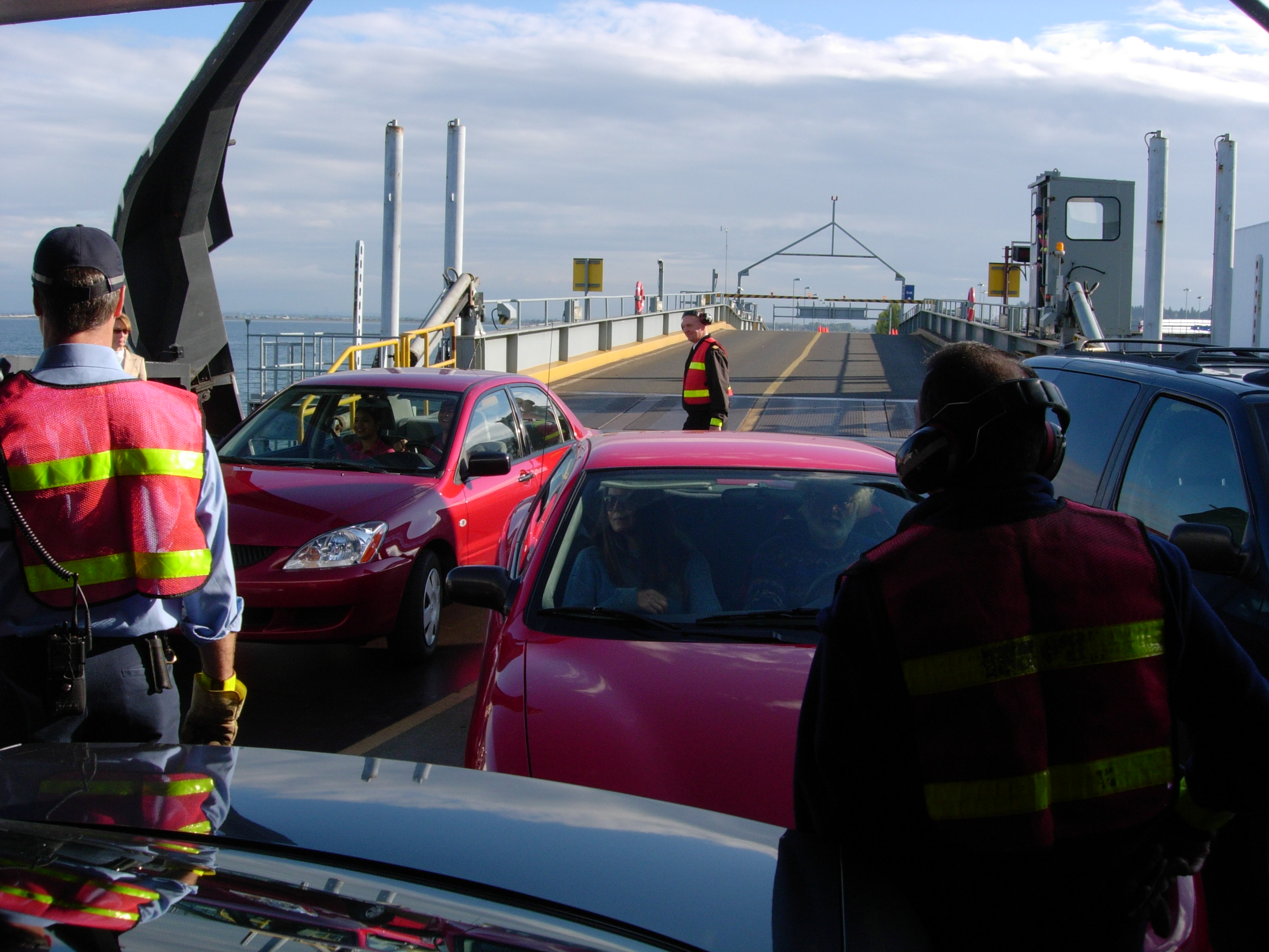 Loading on the upper deck of an S class ferry at Tsawwassen Ferry Terminal. BC Ferries. Vancouver, BC.